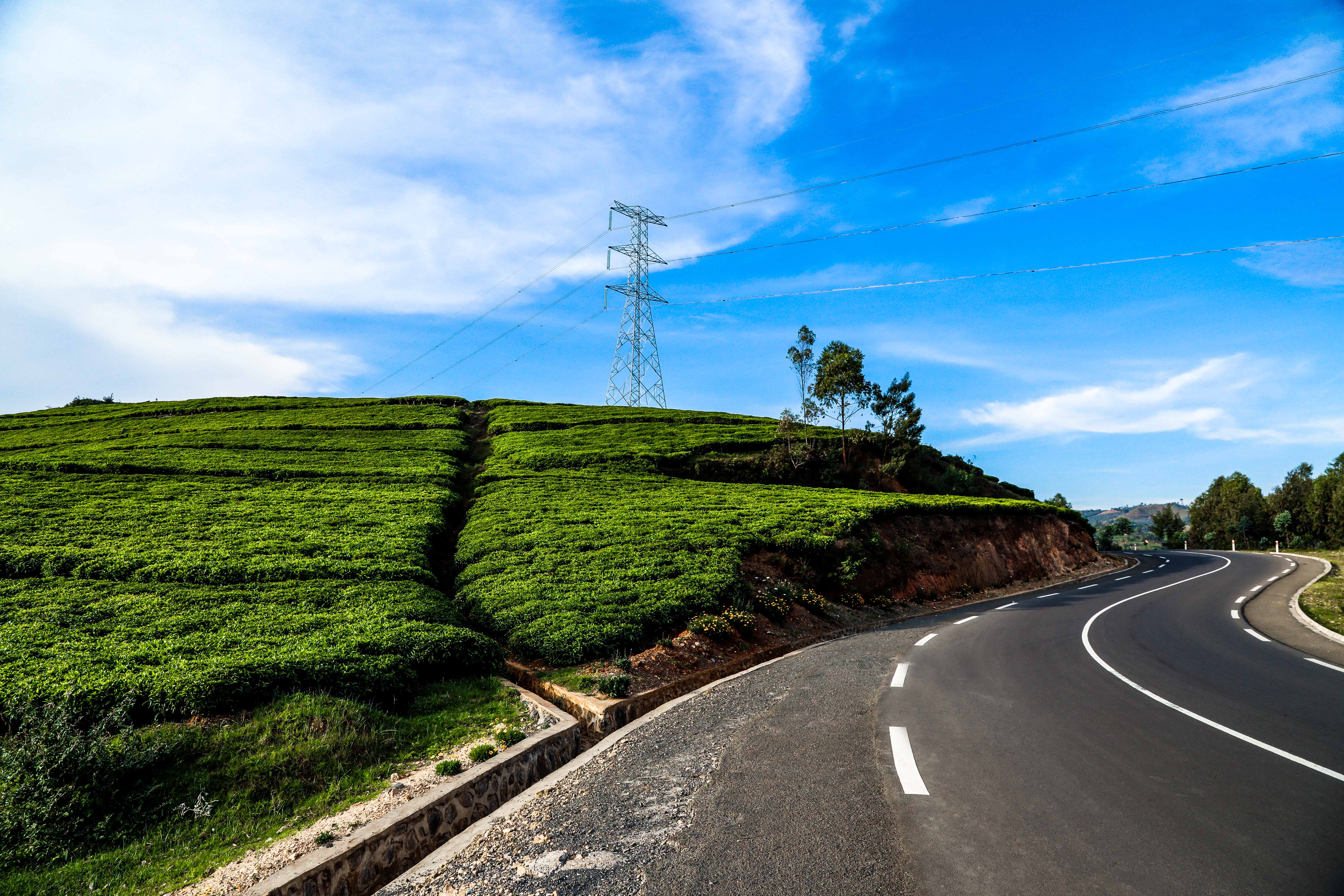 A Kivu belt Road in Rutsiro District, Western Province of Rwanda. Emmanuel Kwizera This is an image with the theme "Africa on the Move or Transport" from: Rwanda